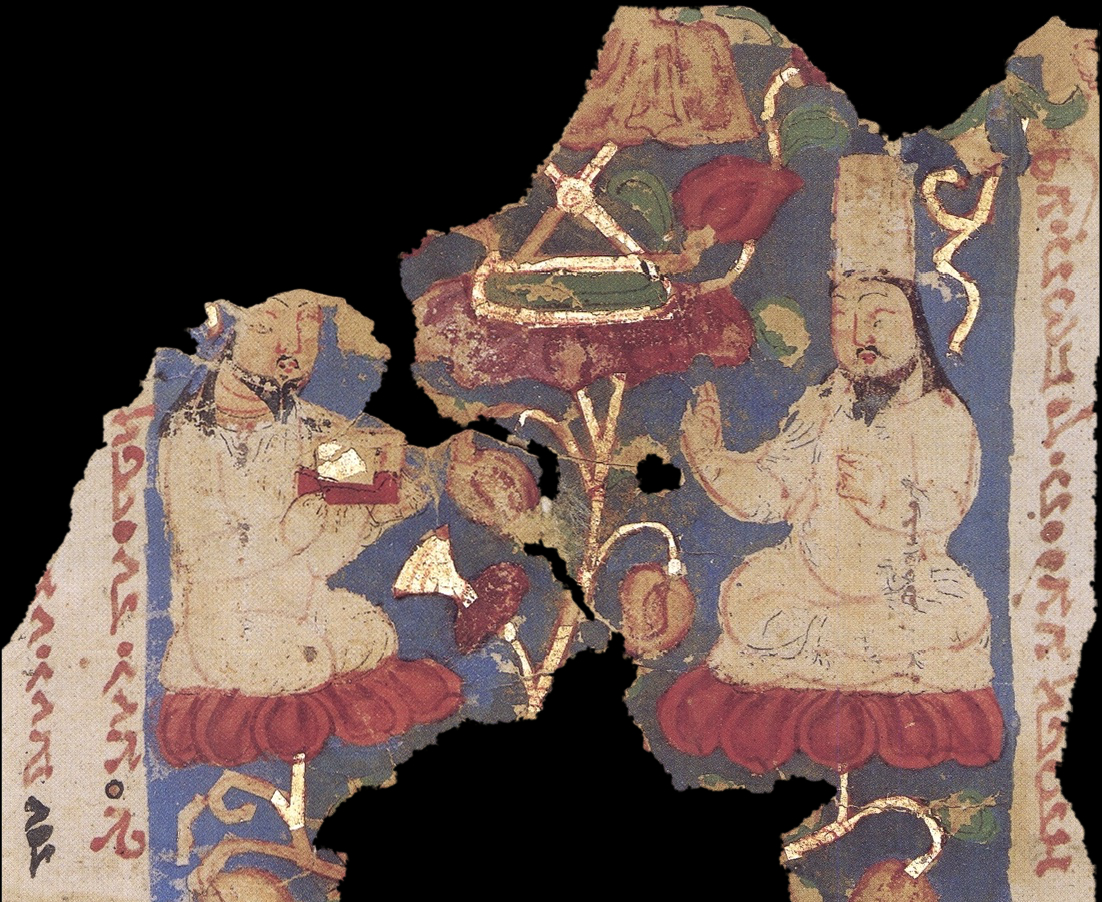 Uyghur Manichaean “Sermon Scene”, shown from picture-viewing direction. Leaf from a Manichaean book (MIK III 8259 folio 1 recto), detail with intracolumnar book painting. Museum für Indische Kunst, Berlin.